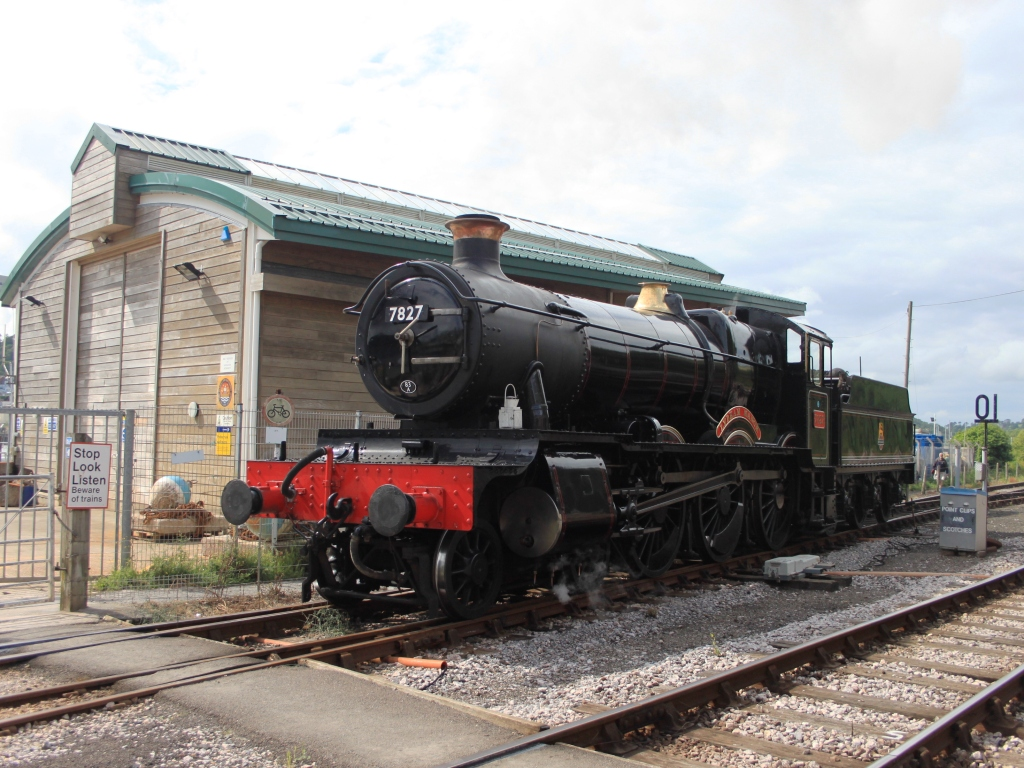 7827 Lydham Manor in the siding at Hoodown outside Kingswear station on the Dartmouth Steam Railway.